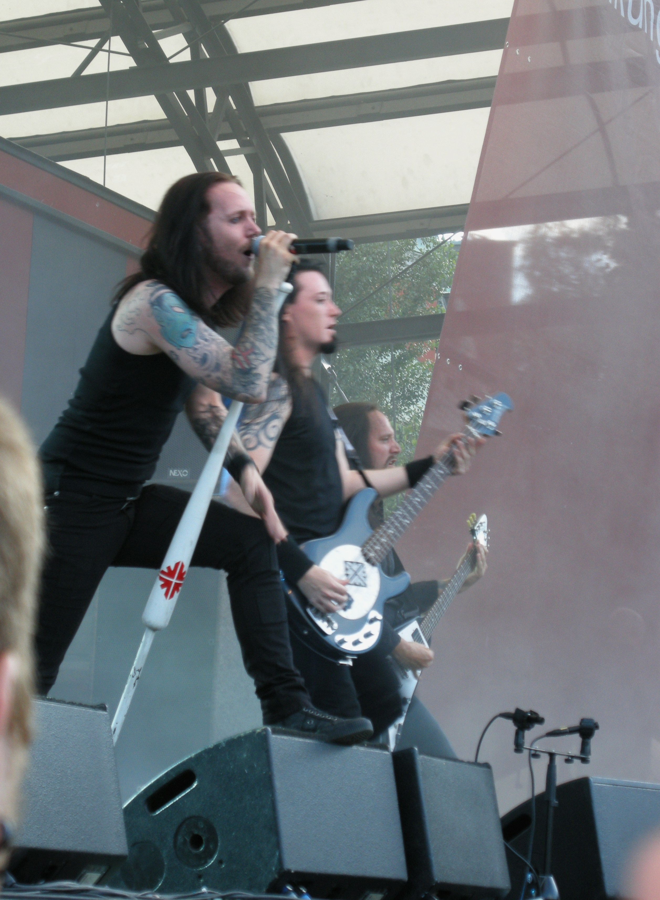 Magnus Klavborn, Steve Drennan and Niclas Engelin of Swedish metal band Engel at Kungsträdgården, Stockholm, Sweden